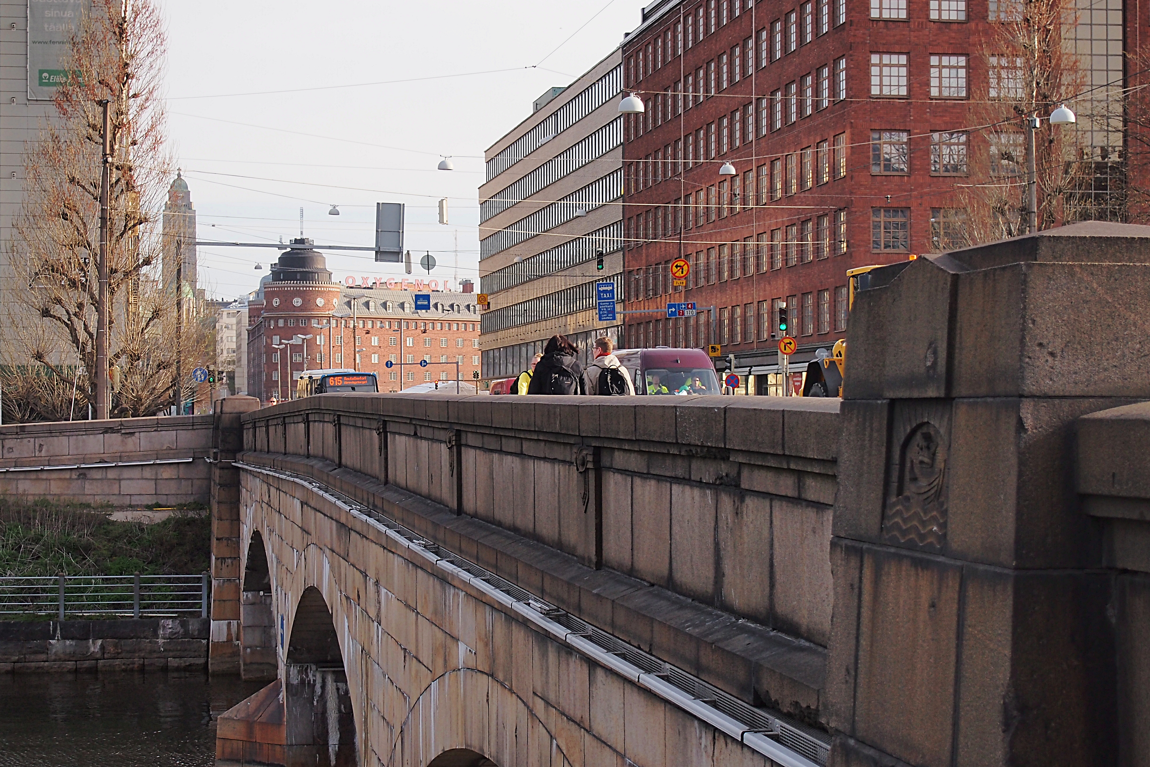 The bridge Pitkäsilta and the street Siltasaarenkatu, Hakaniemi, Helsinki, Finland